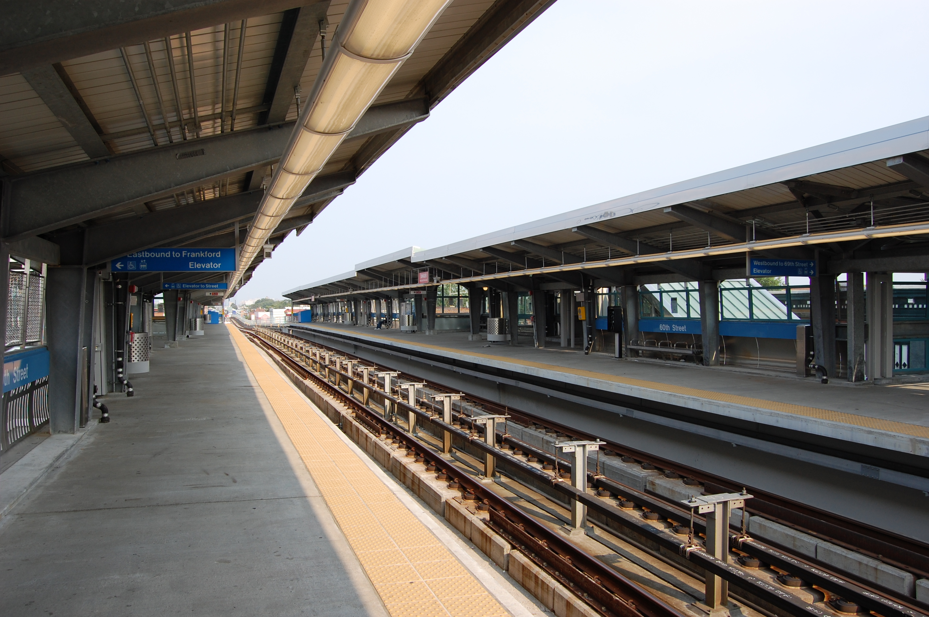 60th Street Station